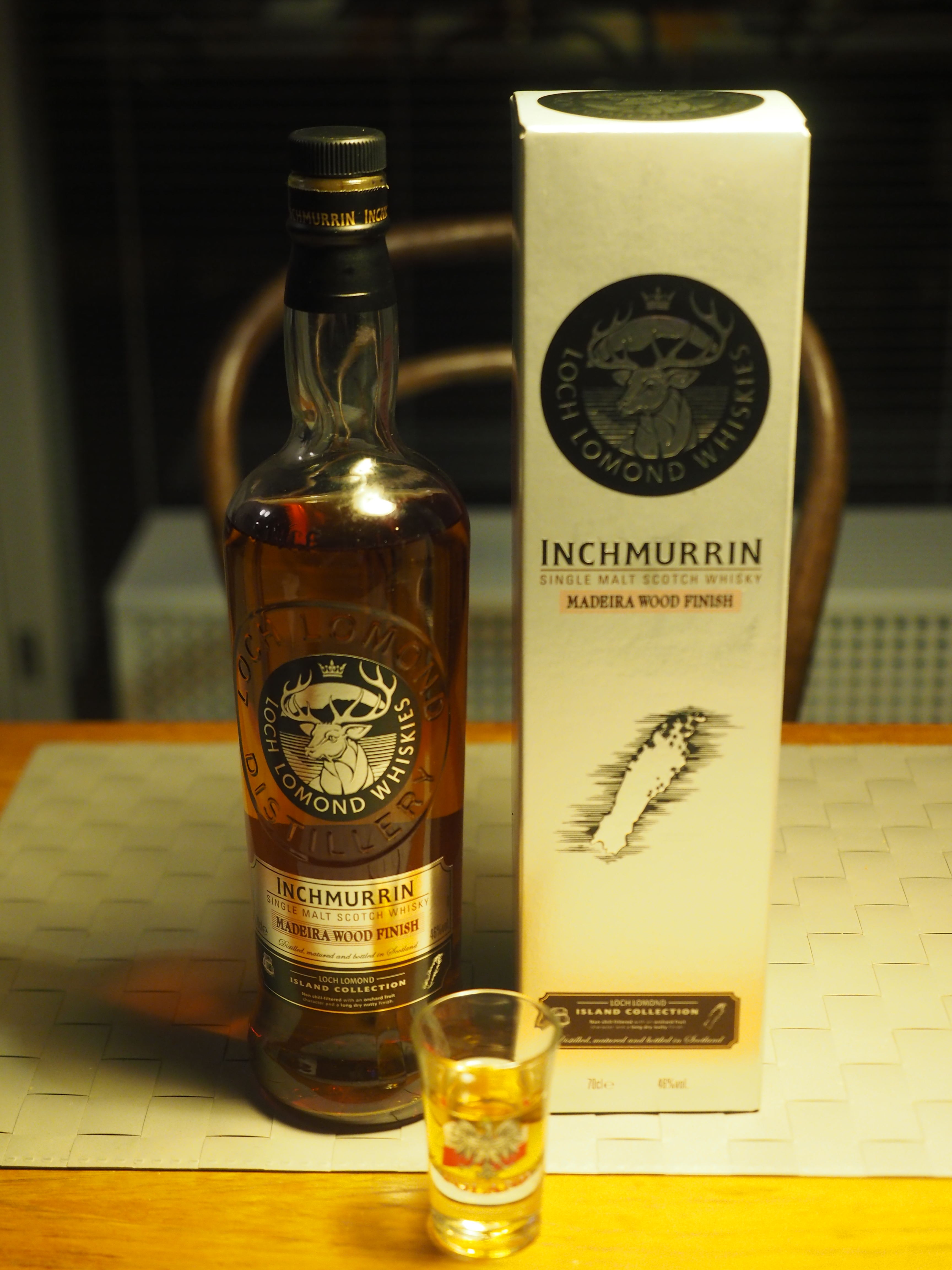 A bottle of Inchmurrin Madeira Wood Finish single malt whisky from the Loch Lomond distillery, photographed at a summer cabin in Lohja, Uusimaa, Finland, in the middle of the night.